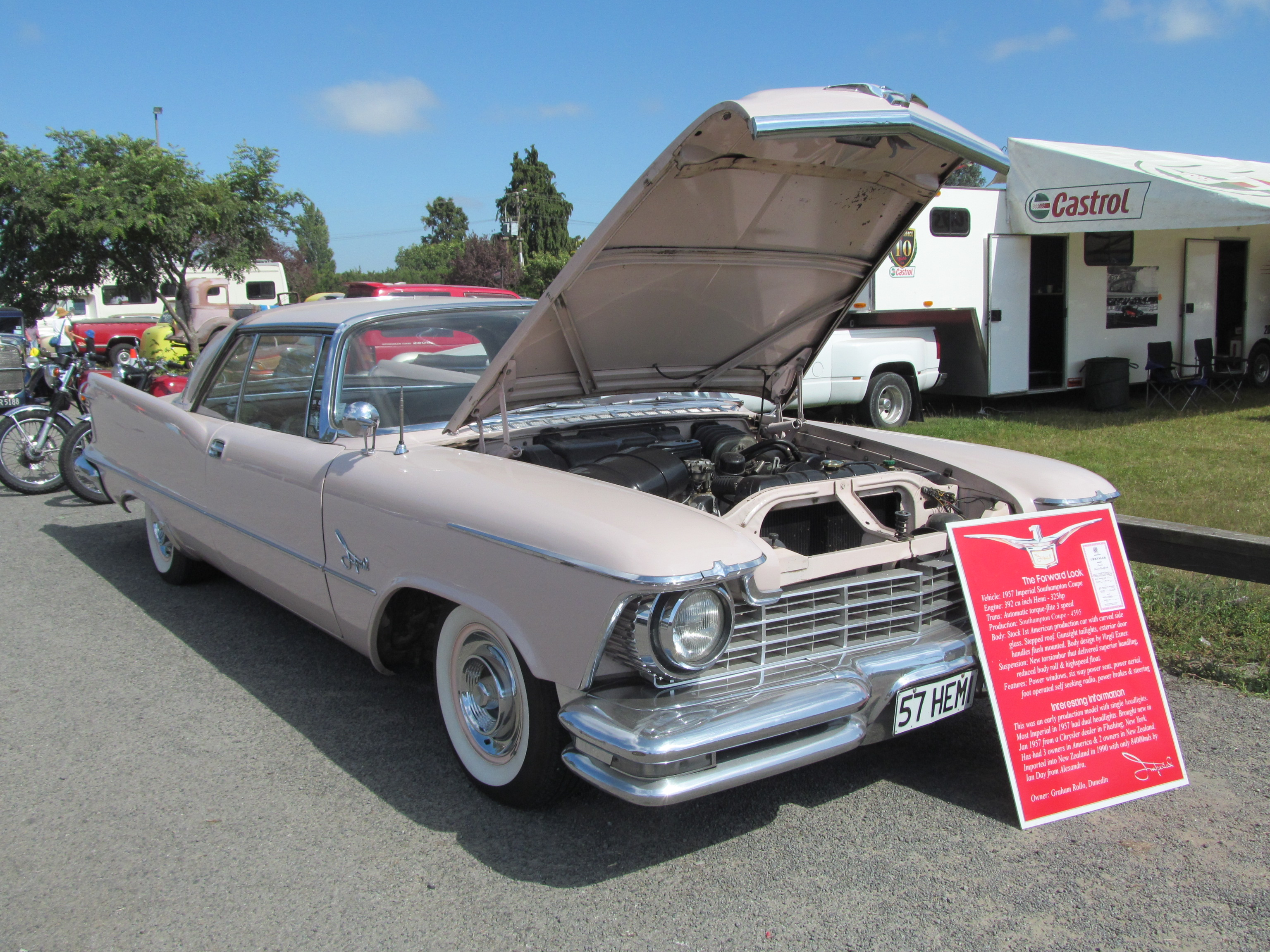 An absolute stunner. According to the info sheet which is hard to read in this photo it is a rare early production model with single headlights, rather than the dual lights most Imperials had. It was bought new in January 1957 from a Chrysler dealer in Flushing, New York, and was imported into NZ in 1990. Before this I had never heard of the Southampton model - just 4595 were built apparently. Perhaps Graham or Edward can tell us more? This baby was totally original and looks all the better for it.